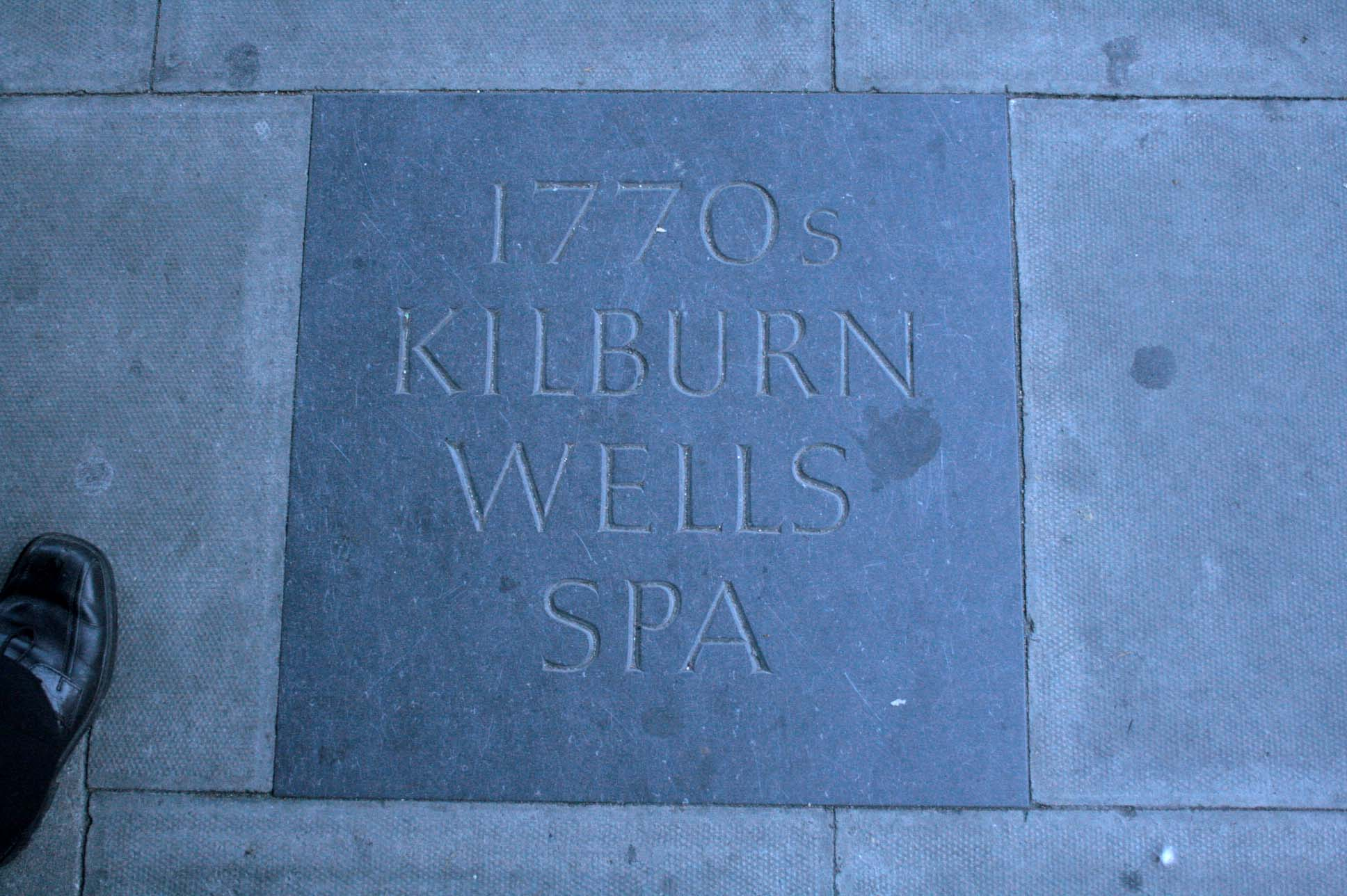 A paving stone on Kilburn High Road, London, UK, commemorating the old Kilburn Wells which opened in the 1770s.